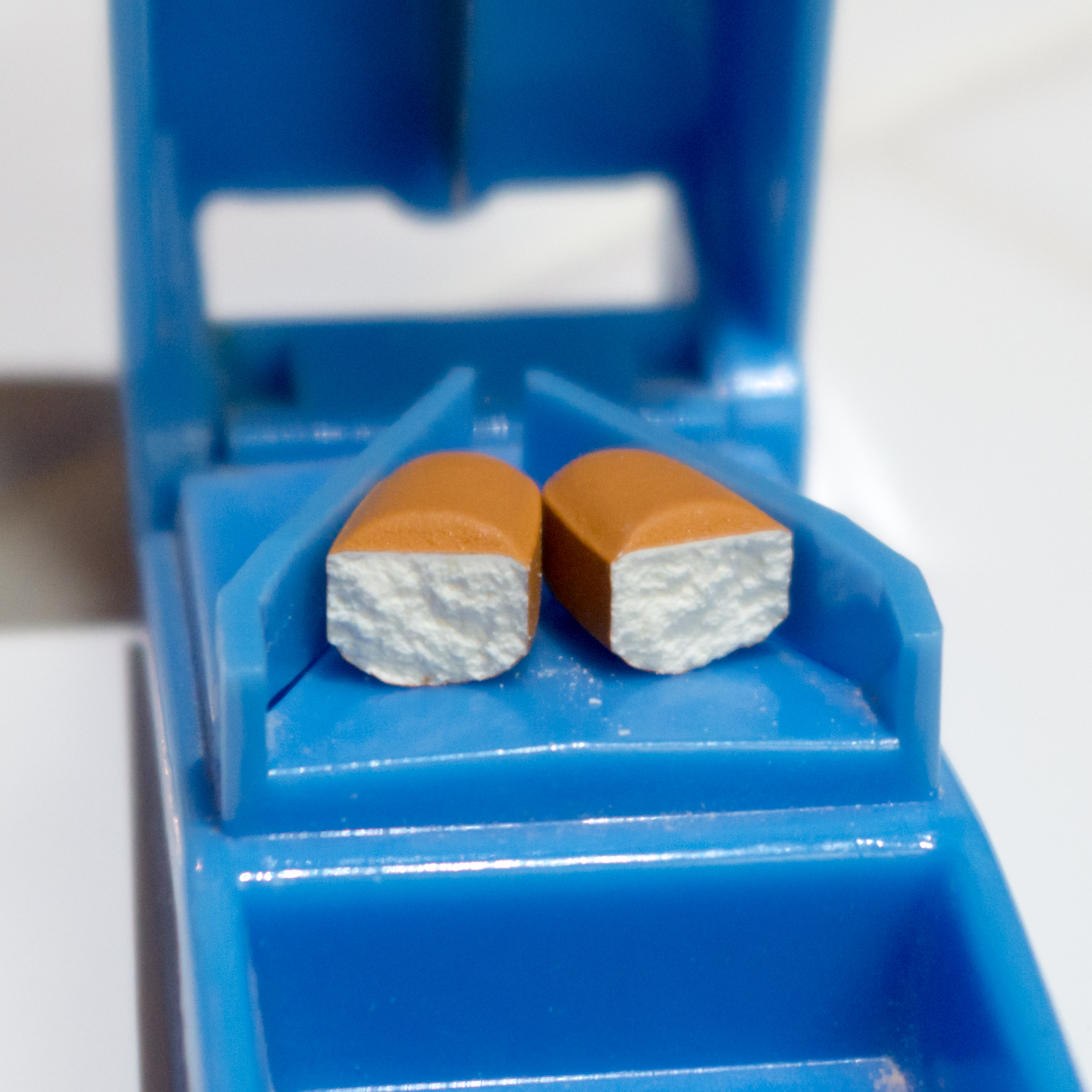 Gleevec (imatinib) tablet cut in half with a pill splitter